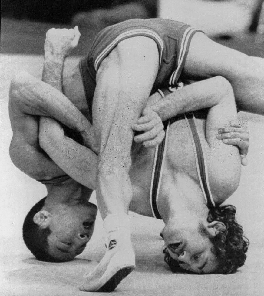 LG10 '72 Wire Photo KYOMI KATO GORDON BERTIE Munich Olympics Freestyle Wrestling